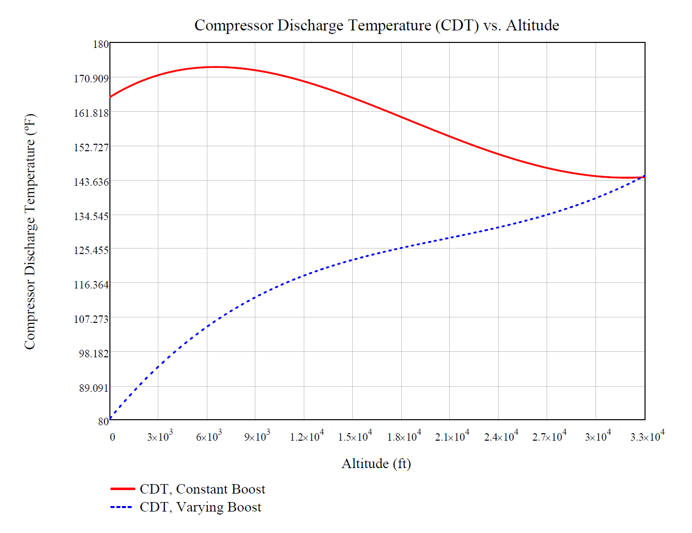 This graph compares the compressor discharge temperature on a supercharged aircraft engine as a function of altitude. Ambient atmospheric temperature and pressure are calculated using standard atmospheric models. The red line assumes the supercharger is putting out constant boost of 10.2 psia (0.70 bar), sufficient boost to make up for the atmospheric pressure at 10,000m (32,800ft) altitude. The blue dotted line assumes a constantly varying boost to maintain the engine's manifold pressure at 1 atm (14.696 psia). It can be seen that constantly varying the boost significantly reduces the CDT of the supercharger (although it also results in lower power output).